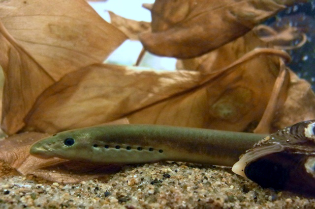 Adult-fish of Eastern-brook-lamprey(Lethenteron reissneri). It was sampled in Akita, Japan. the photo was taken in a tank.